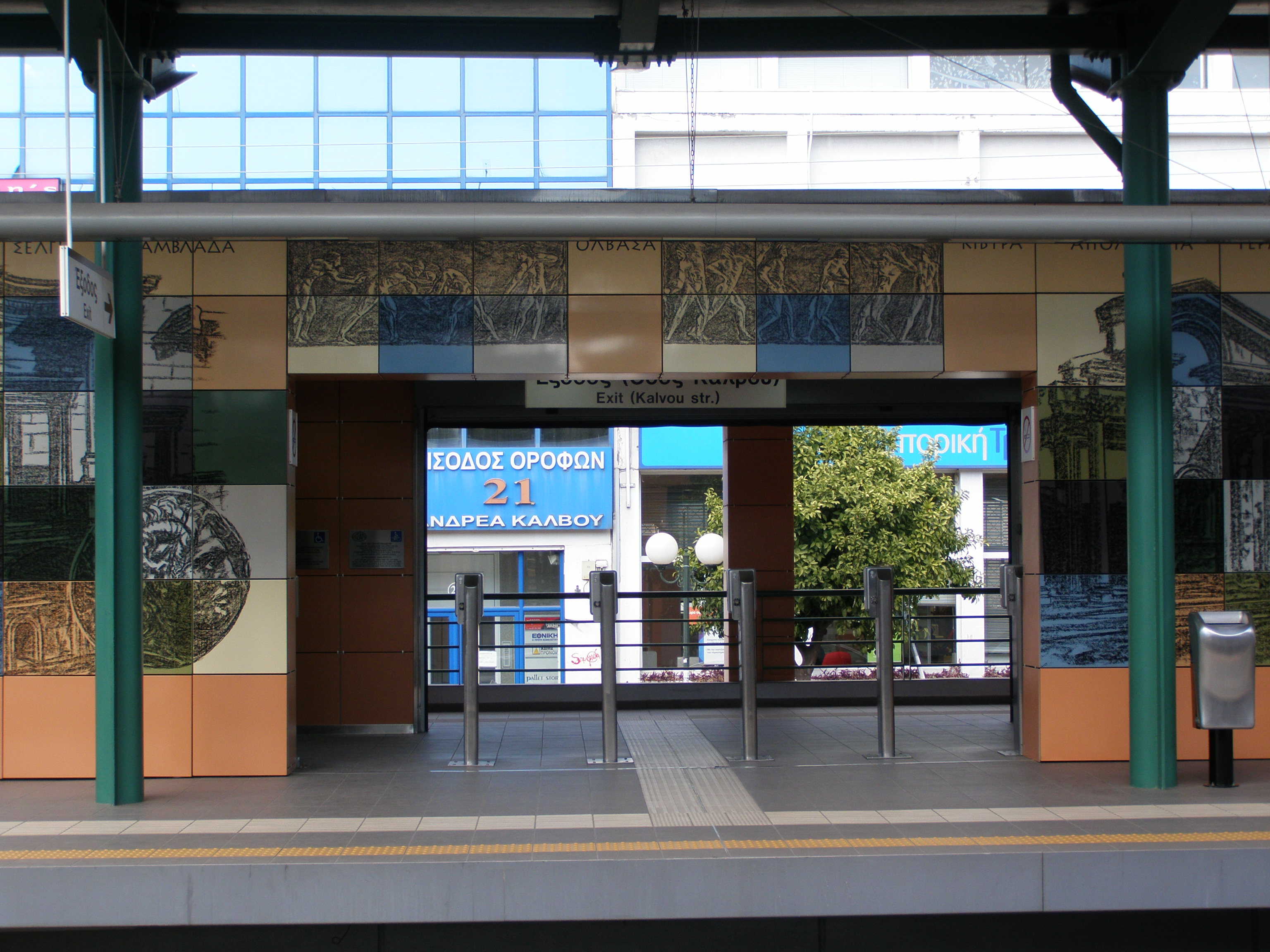 Athens ground metro station "Nea Ionia"